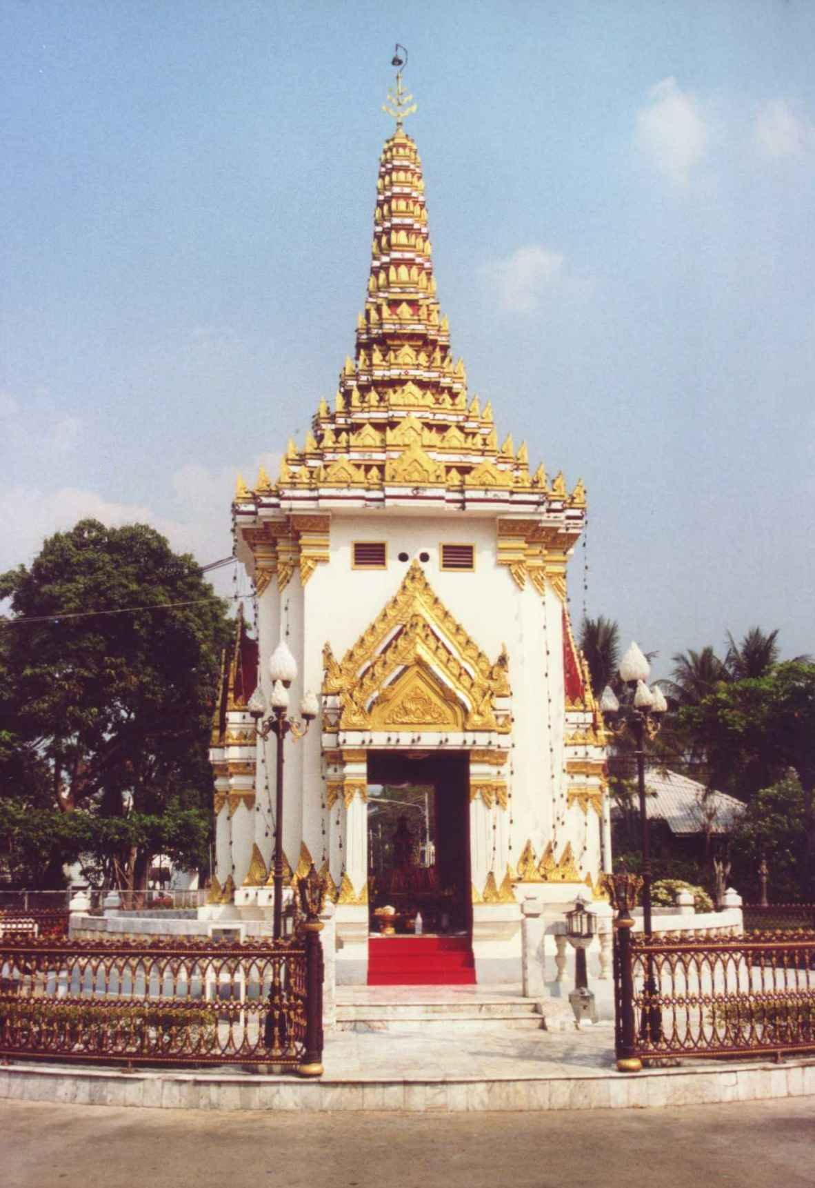 City Pillar shrine (Lak Mueang) of Ratchaburi, Thailand Photo taken by User:Ahoerstemeier in January 2006.